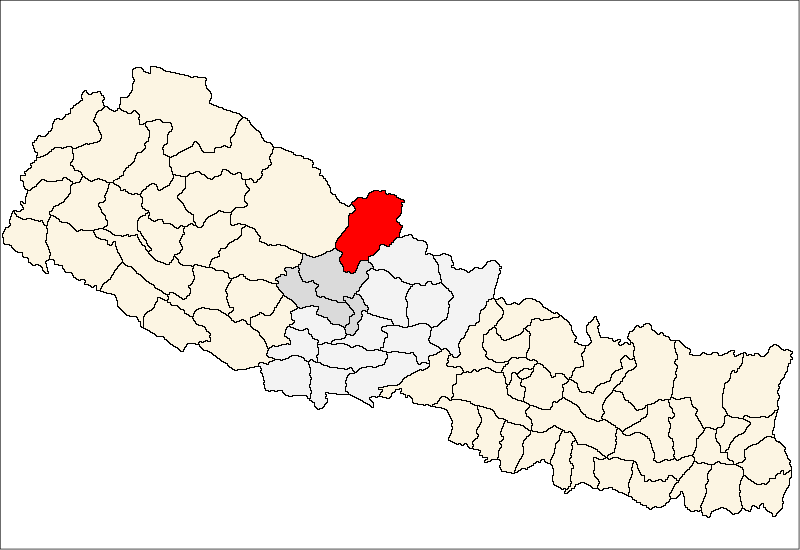 FrenchCarte de localisation dudistrict de Mustang(wp-FR),au Népal (wp-FR).EnglishLocation map ofMustang District(wp-EN),in Nepal (wp-EN).